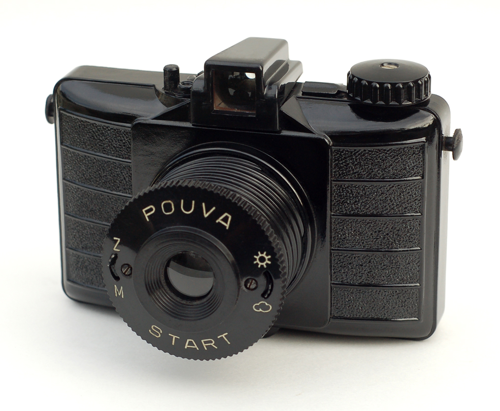 One of three "Start" cameras produced by Karl Pouva. All of them are made of bakelite and have helical telescoping lens tubes. This model was manufactured starting in 1956. I think there's something Batman-esque about this model...